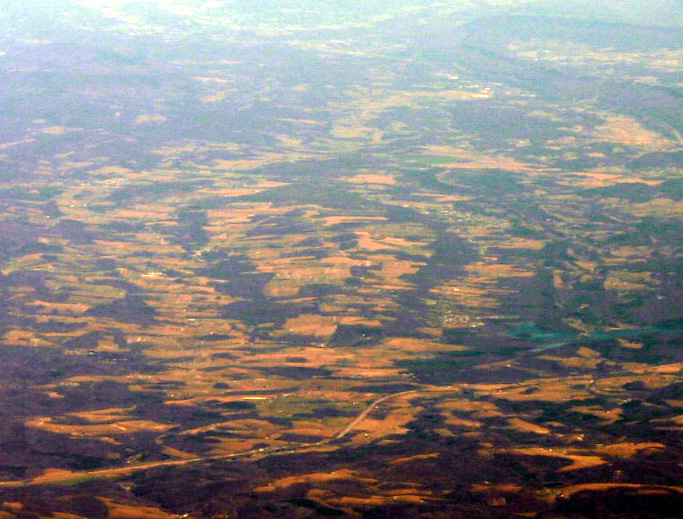 Oblique air photo of Chestnut Ridge in Bedford County, Pennsylvania, facing northeast. Note Shawnee Lake at right below center, and Dunning Mountain in the upper right. The prominent road in the foreground is the Pennsylvania Turnpike (I-70/76). Taken 10 Dec, 2006, and contrast has been enhanced.